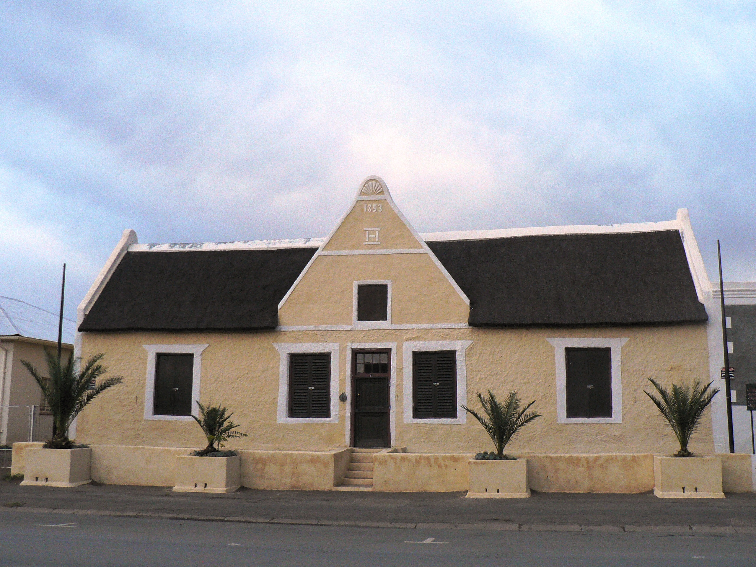 This media shows a South African Protected Site with SAHRA file reference 9/2/017/0009.